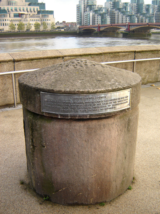 Buttress from the river steps of the now-vanished Millbank Prison, Millbank, Pimlico, London. 29 October 2005. Photographer: Fin Fahey The plaque reads: 'LONDON COUNTY COUNCIL/Near this site stood Millbank Prison, which was opened in 1816 and closed in 1880. This buttress stood at the head of the rivers steps from which, until 1857, prisoners sentenced to transportation embarked on their journey to Australia.'